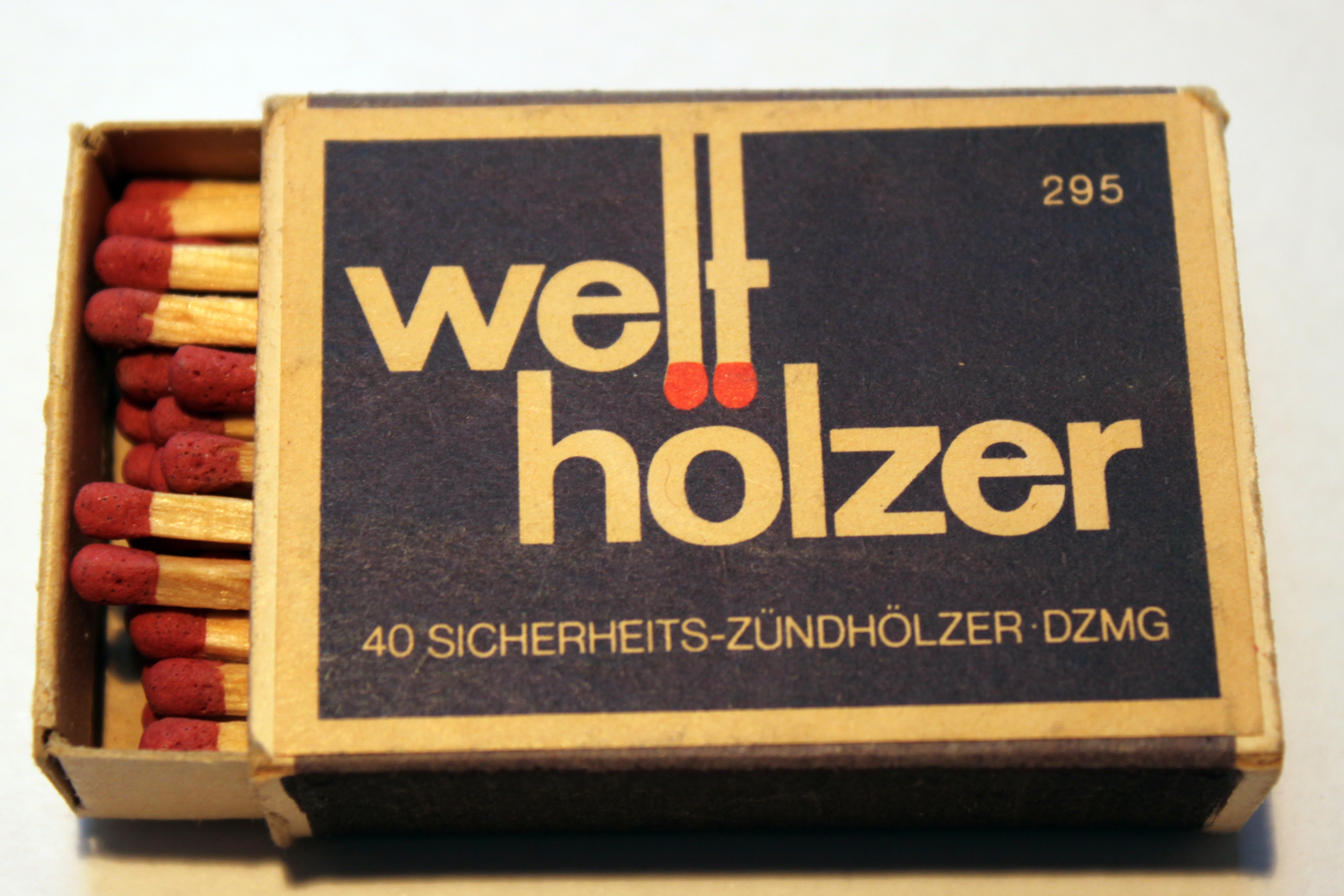 Matchbox "Welthölzer"